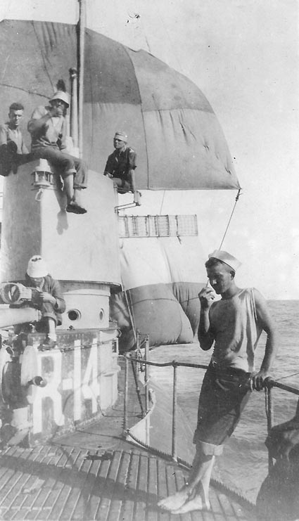 USS R-14 (SS-91) under "full sail" in May 1921. While searching for the missing USS Conestoga (AT-54) southeast of Hawaii, the R-14 lost her powerplant. As repairs were unsuccessful, her crew rigged a jury sail, made of canvas battery deck covers, to the periscope and sailed her to Hilo. She arrived there on 15 May 1921, after five days under sail. Original caption: “Photo # NH 52858 USS R-14 under sail, May 1921” — removed caption